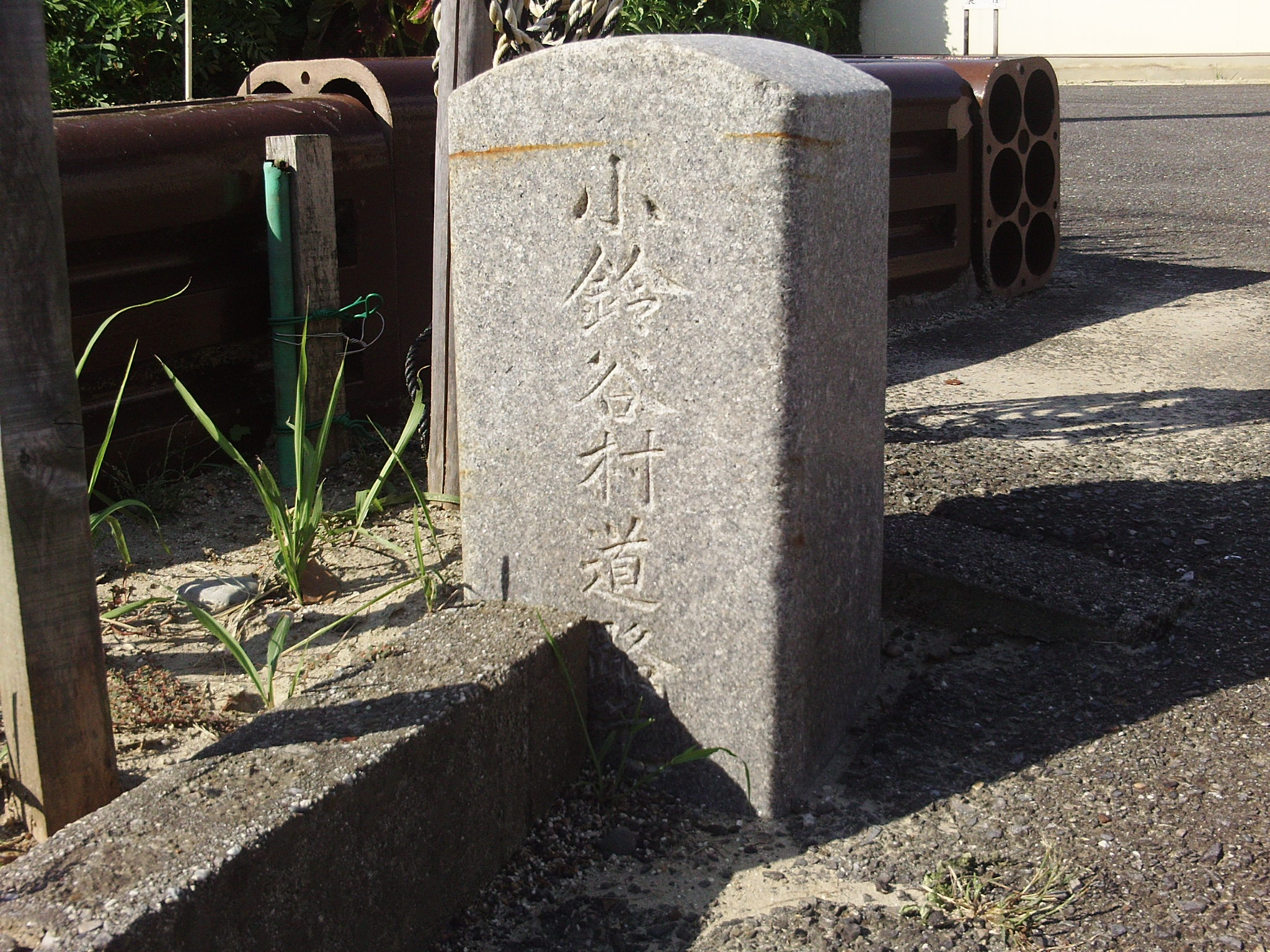 Kilometre zero of Kosugaya village. (Kosugaya village, Chita-gun, Aichi.)